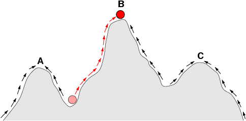 In this sketch of a fitness landscape, a population can evolve by following the arrows to the adaptive peak at point B, and the points A and C are local optima where a population could become trapped. Importing fitness landscape cartoon image originally included in Nupedia "fitness landscape" article-in-progress (originally titled "fig1.pdf"). The illustration was created by Claus Wilke in 2001 for Nupedia, under the GFDL. The article was in "open review" at Nupedia, but hadn't yet been approved. This file was converted from PDF to PNG and was originally located here: As the original copyright holder of the image, I release it into the public domain.